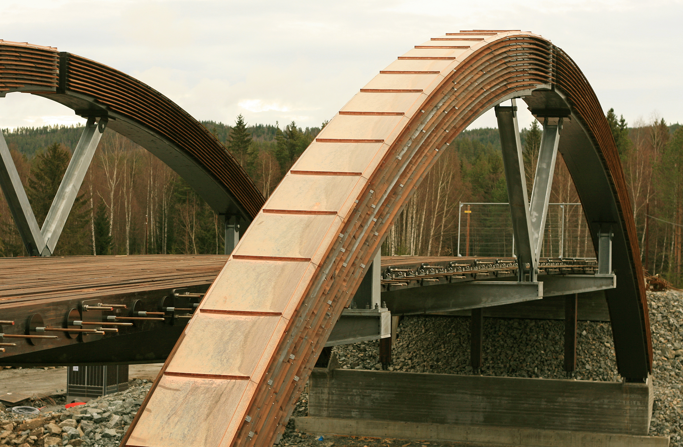 Wooden arch (gluewood) bridge under construction. Bridge over E6 at Tangen, Norway.